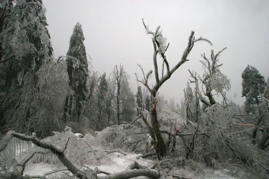 Frozen rain damage forest near Postojna/Slovenia